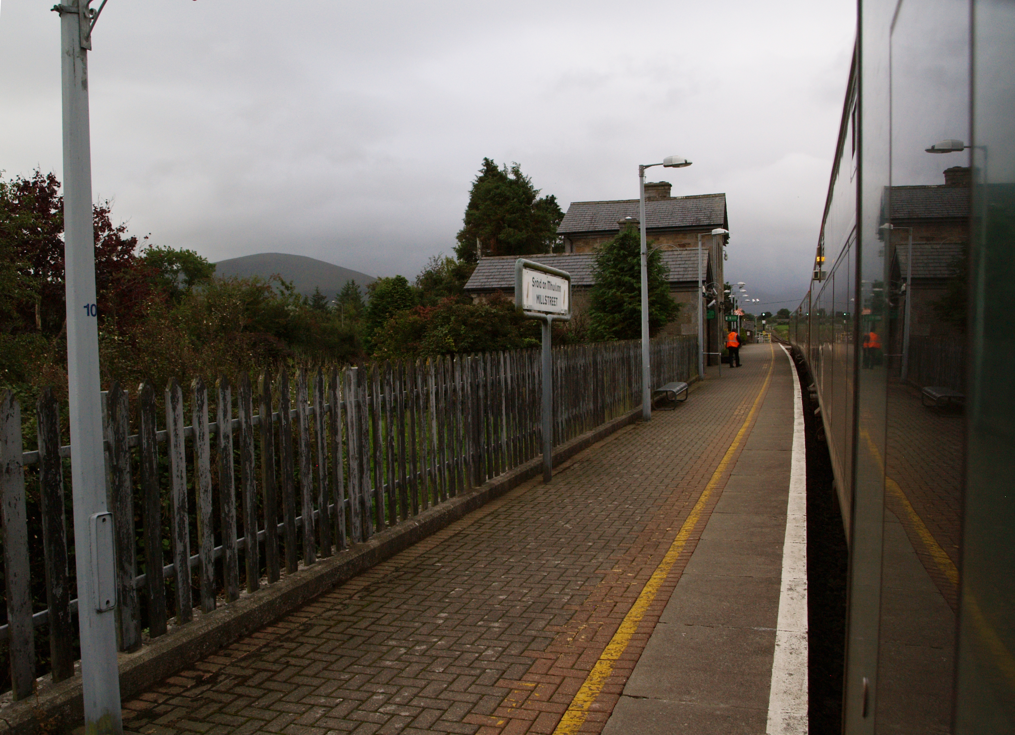 Millstreet, Co Cork. Millstreet rail station between Mallow and Killarney.